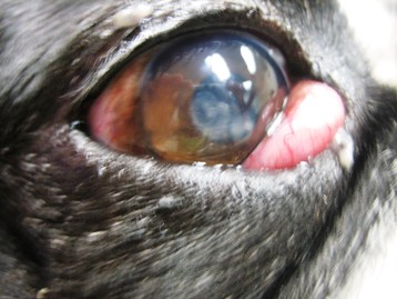 Close up example of cherry eye in a small mixed breed dog.